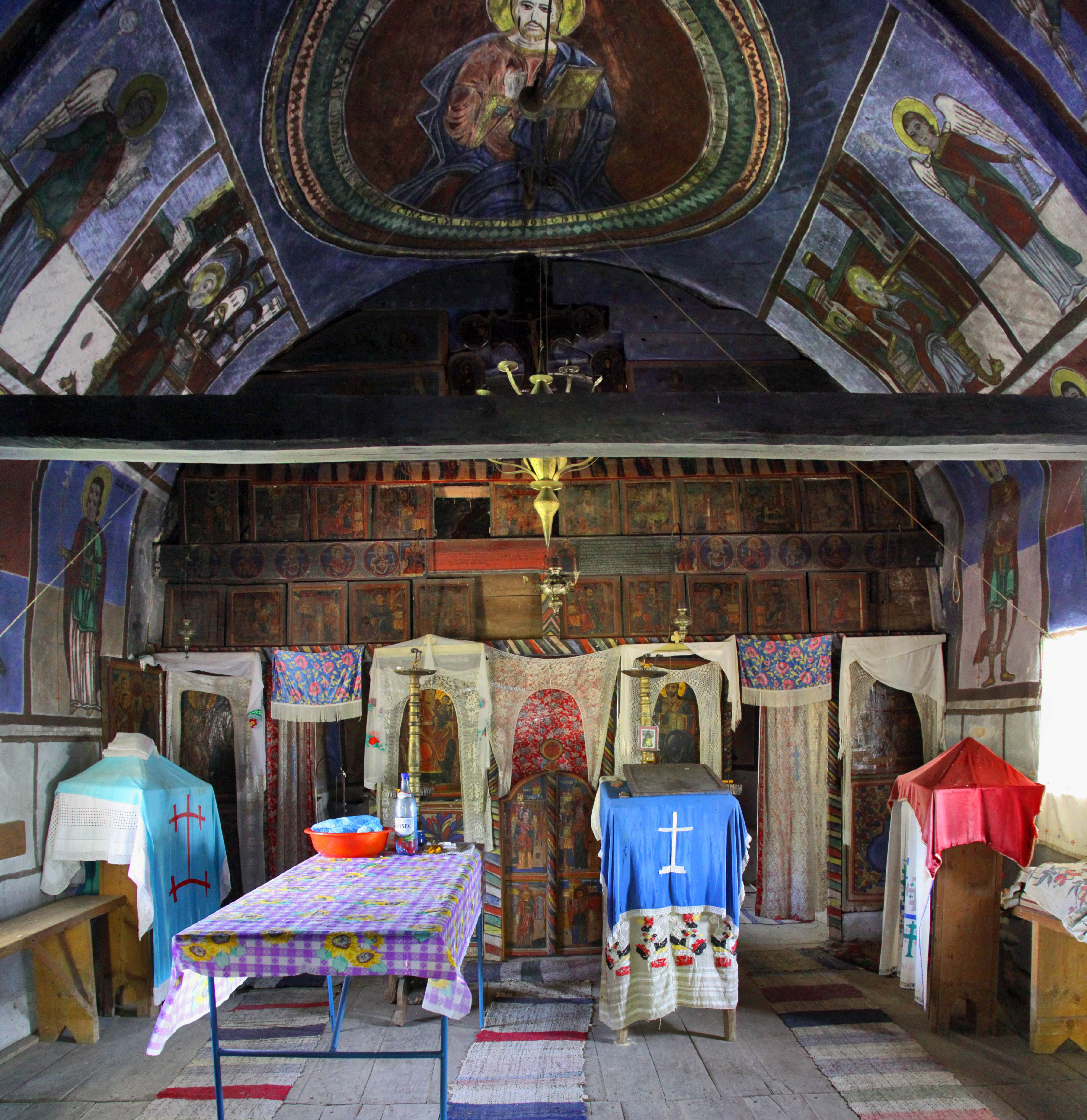 Floreşteni, Târgu Cărbuneşti, Gorj county: the wooden church, nave, iconscreen.